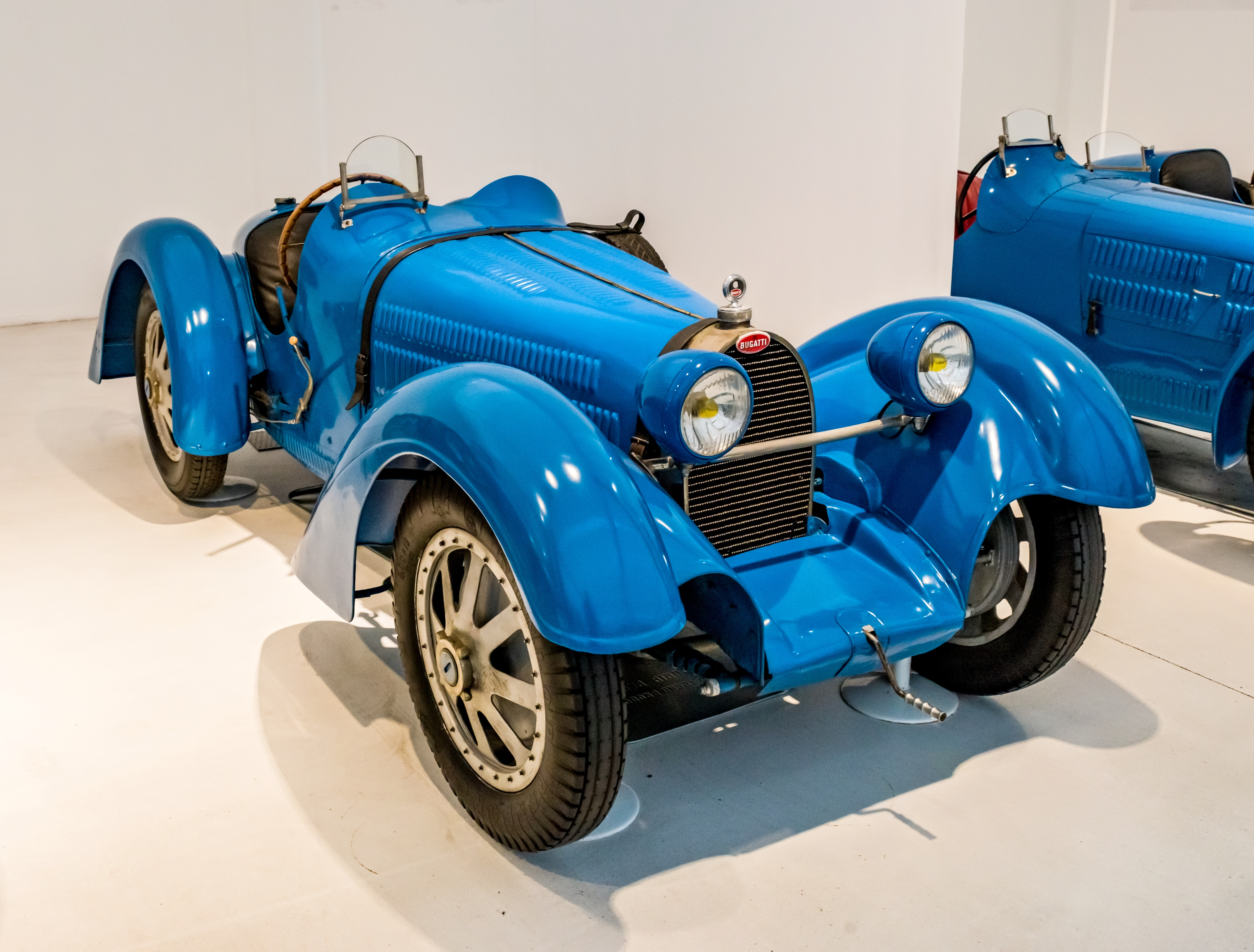 pictures from the Cité de l’Automobile – Musée National – Collection Schlump in Mulhouse, France ptictures from the 10. may 2018